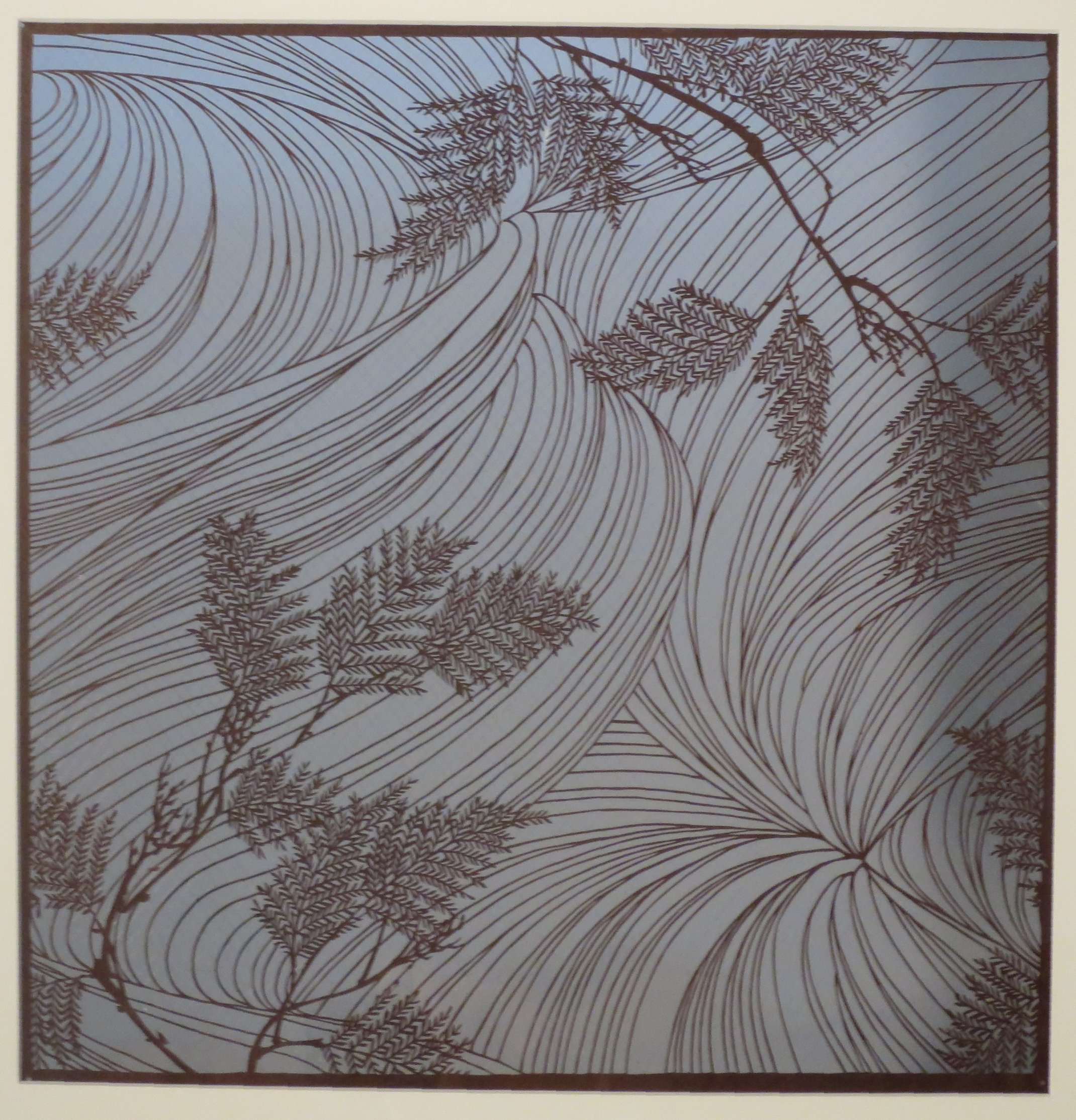 Stencils for fabric designs from Japan (katagami), 19th century, paper and human hair, Honolulu Museum of Art